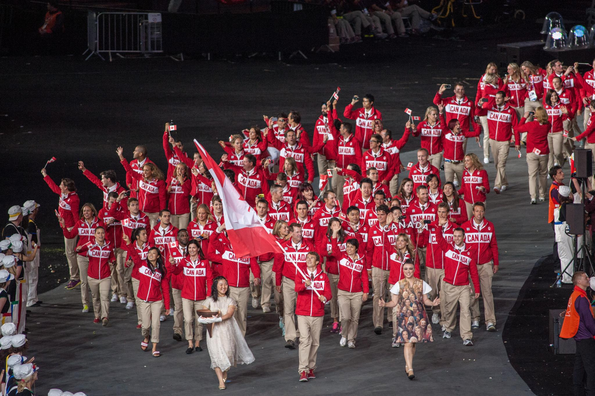 The Canadian team entering the stadium at the 2012 Summer Olympic Games. Carrying the Canadian flag is Simon Whitfield.